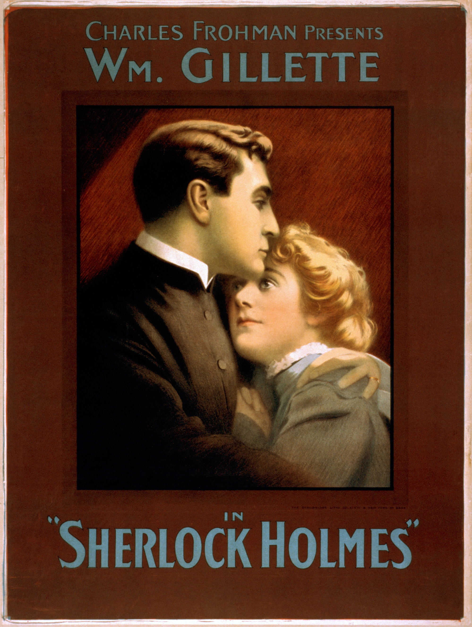 Charles Frohman presents William Gillette in "Sherlock Holmes".